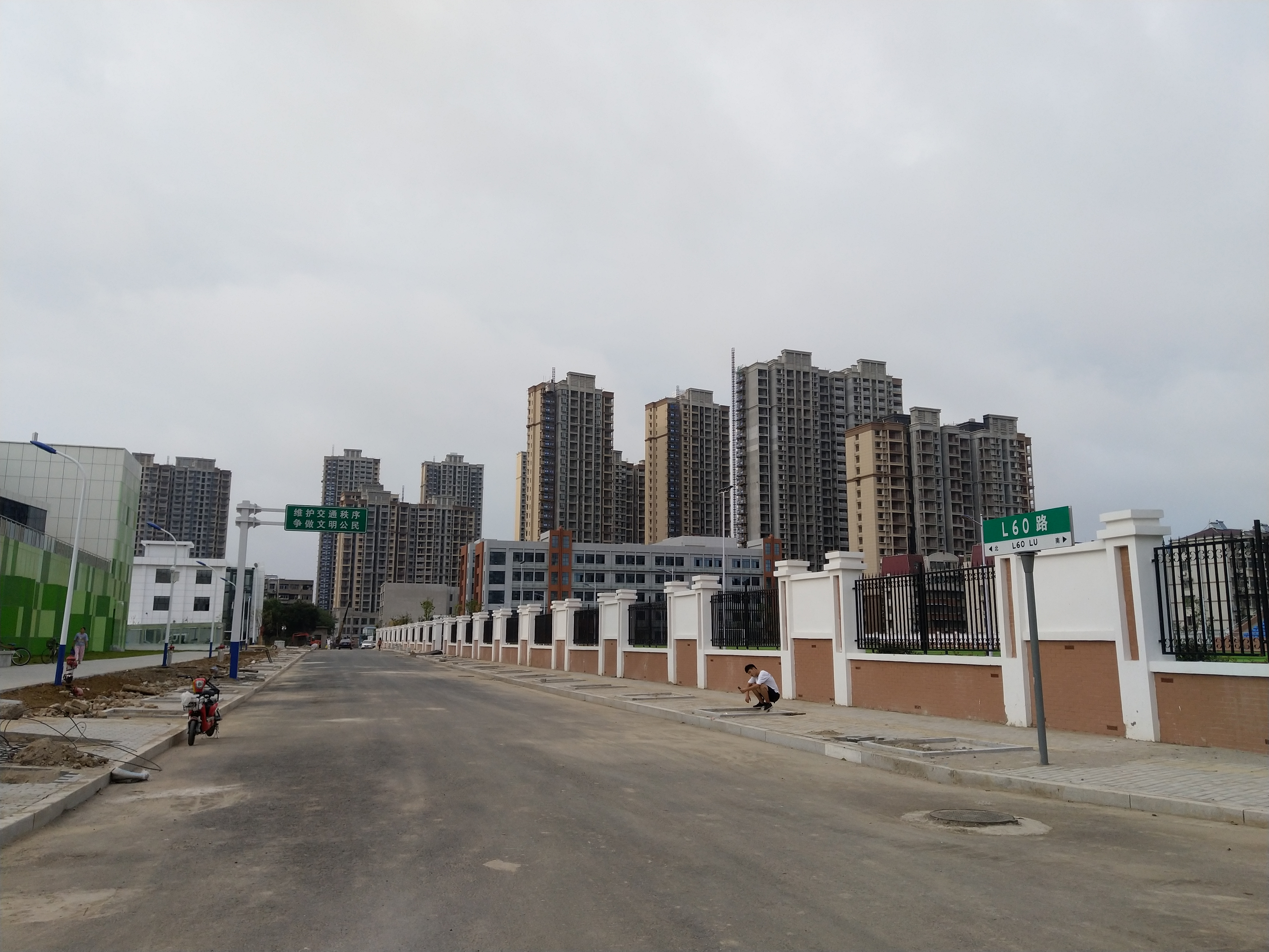 Bengbu City Longzihu District Civil Sports Center Side